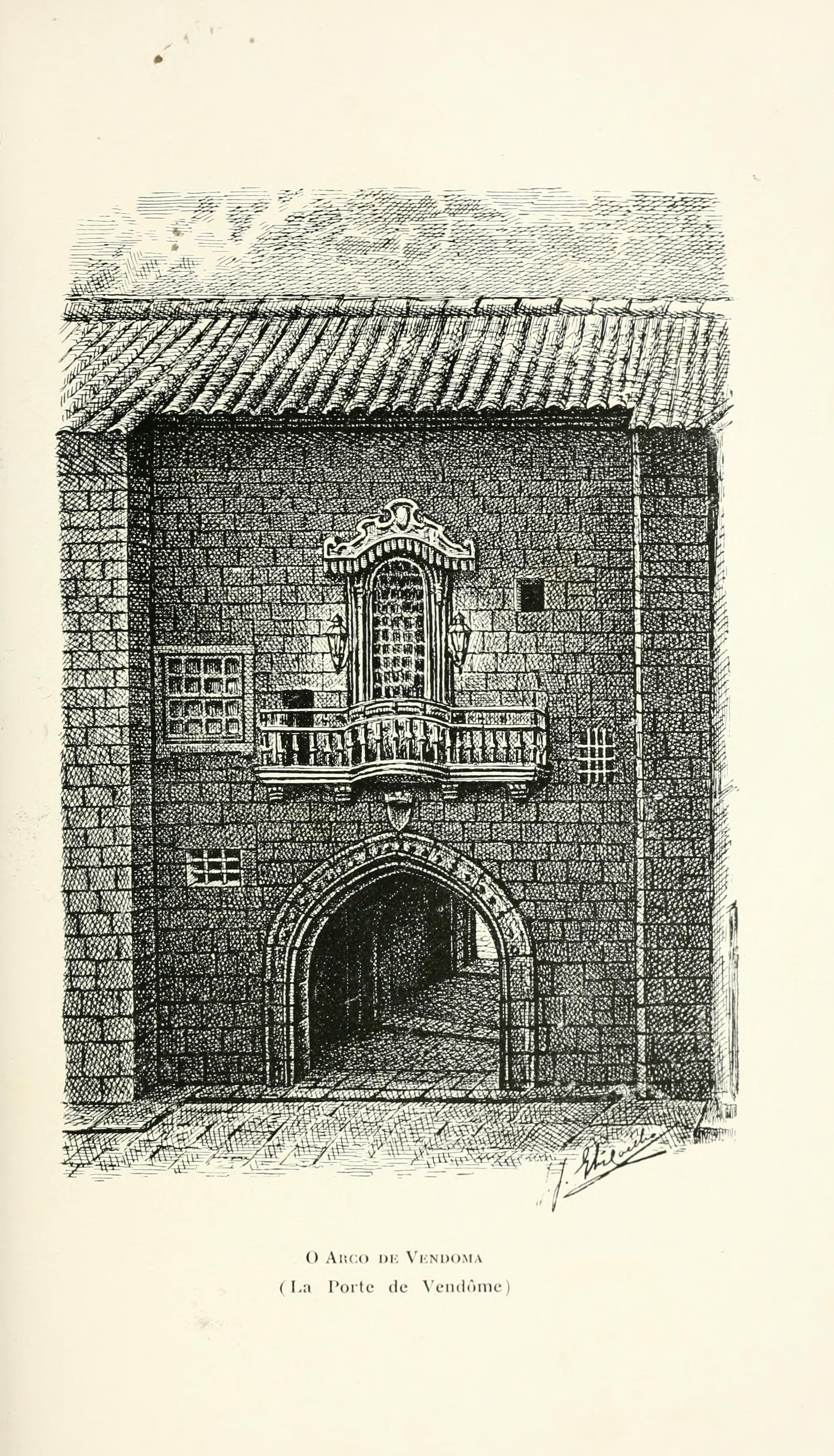 the Port of Vendoma (Vendôme), Porto, Portugal